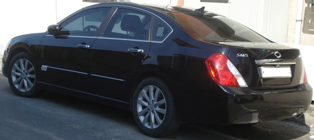 Renault Samsung SM5 New Impression